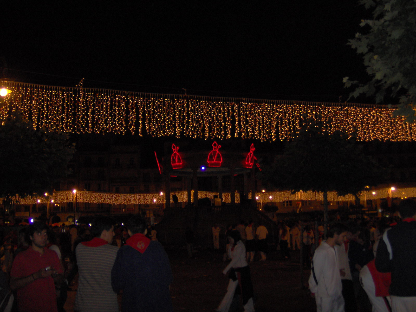 Plaza del Castillo (Castle Square), Pamplona, during Sanfermines. Picture taken by Johnbojaen on 8th july 2005, and uploaded 1st september 2005.